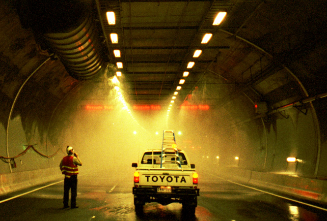 Burnley tunnel, shortly before opening, Dec 2000 Melbourne City Link, Burnley tunnel: looking east towards low point at Swan St shaft, December 2000. Test of the tunnel's manual fire suppression system. Photograph taken by Ecb. Water deluge system operating to sprinkle water over one of the 30 m zones in the tunnel. Note the good definition of the jet fan at the top left, and the smoke extract duct in the middle of the ceiling. Bloke standing at the left is probably Frank Krista of Transfield Construction Victoria (cheers, Frank!). If you want a more detailed picture or a negative scan, please leave a message on my talk page. Assuming I'm still contributing I will respond.